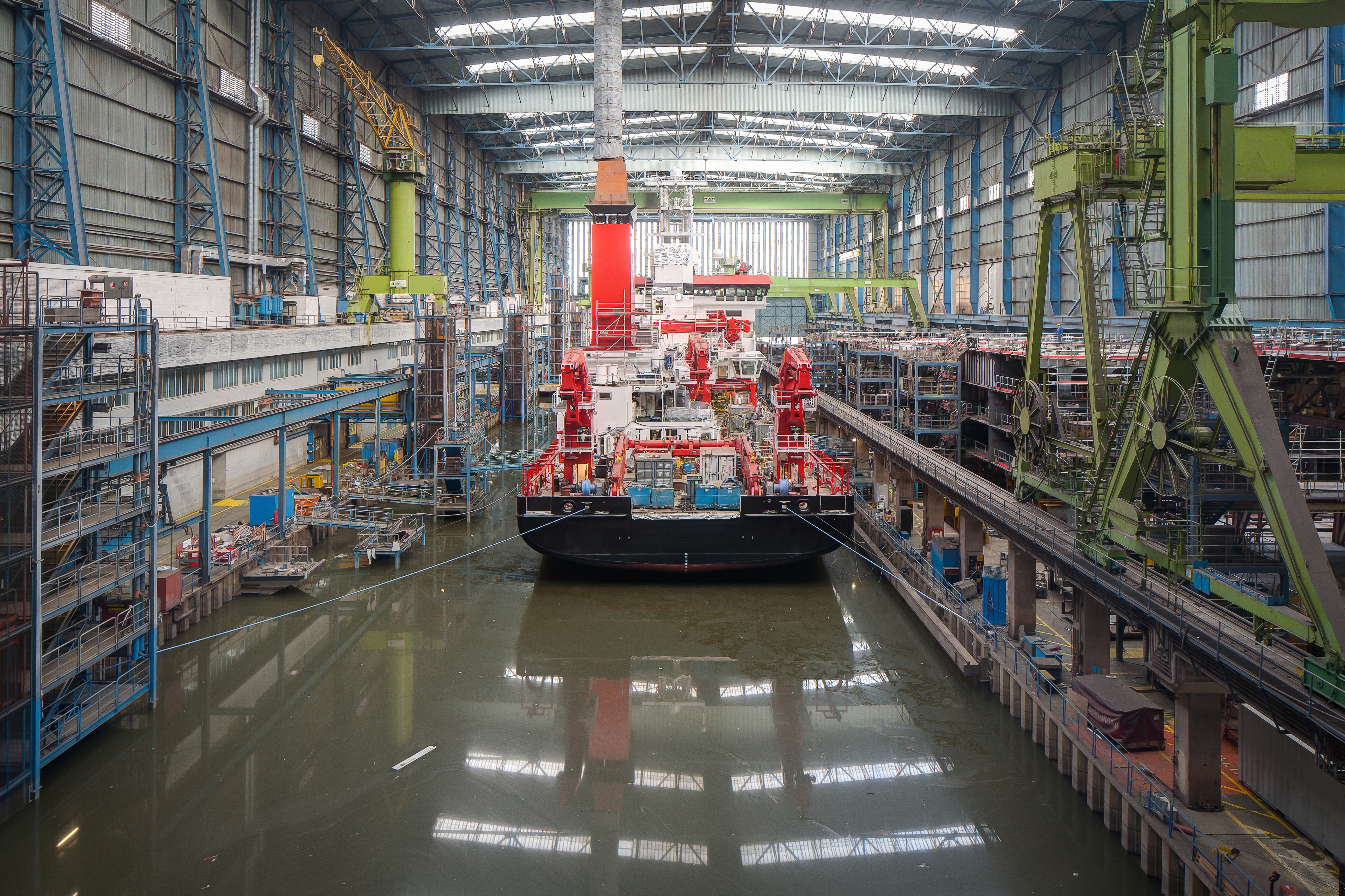 The older of two fabric halls at the Meyer shipyard in Papenburg, Germany. Visible in the middle is the new research ship "Sonne".